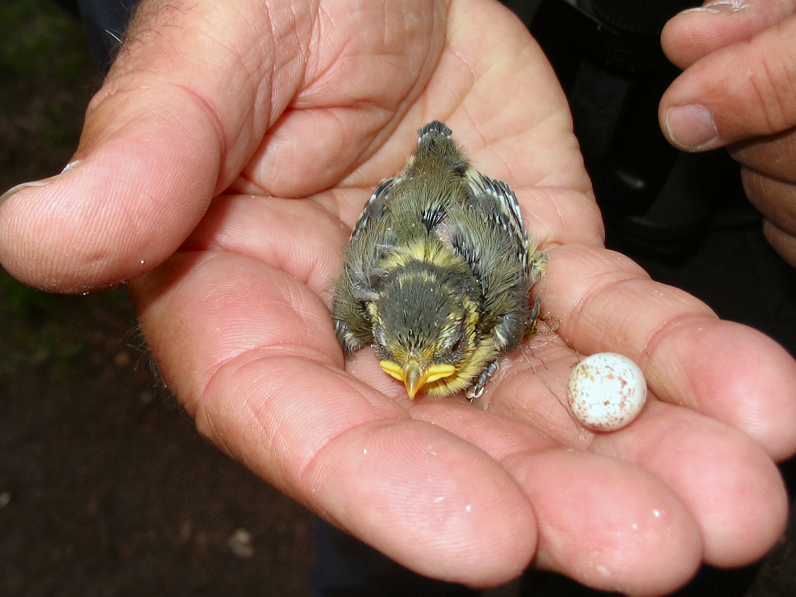 Blue Tit (Parus caeruleus). A chick, about two weeks old and an infertile egg. Picture taken during bird ringing.